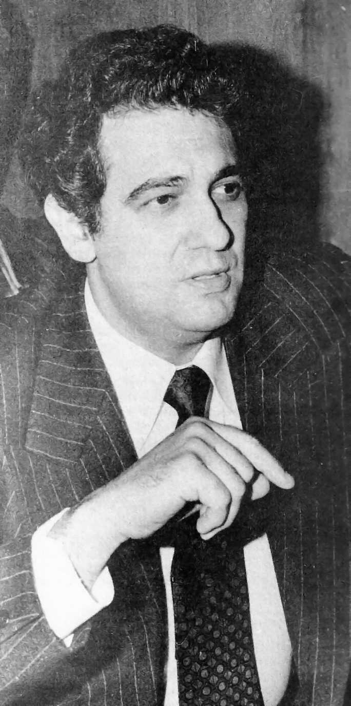 Spanish singer Placido Domingo